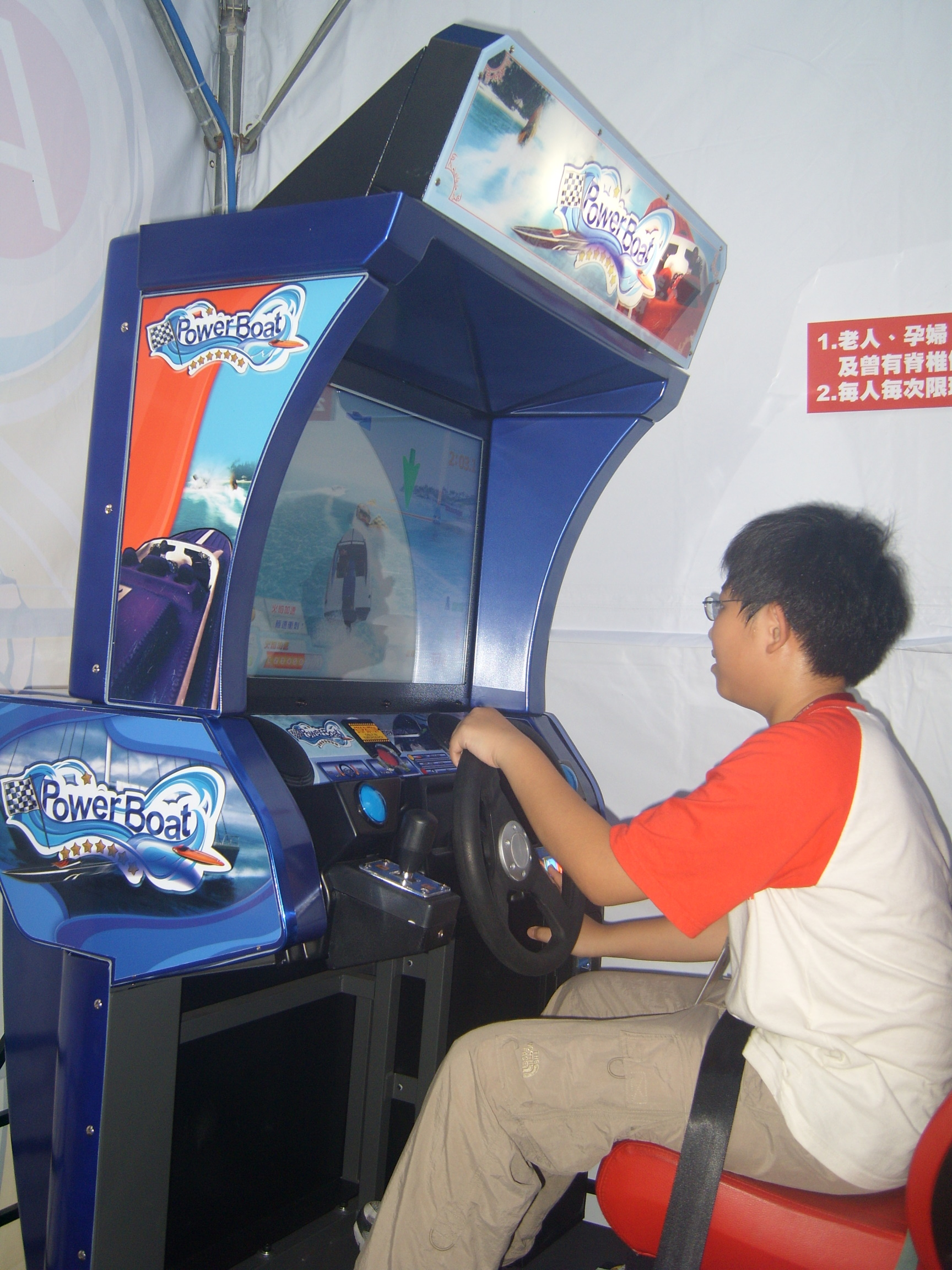 2008 Digital E-Park: PowerBoat Arcade.